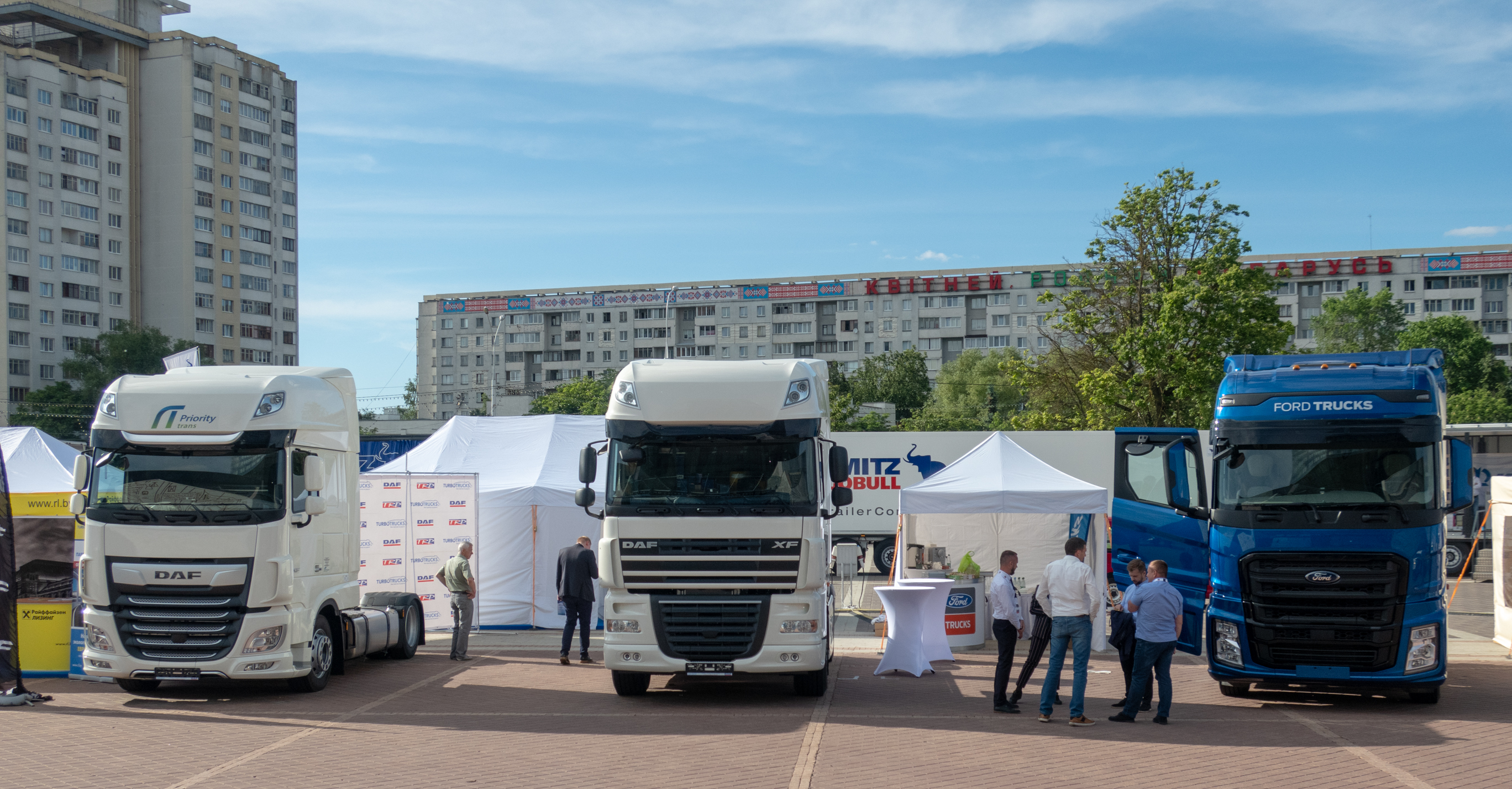 BAMAP-2019 exhibition (Minsk, Belarus)